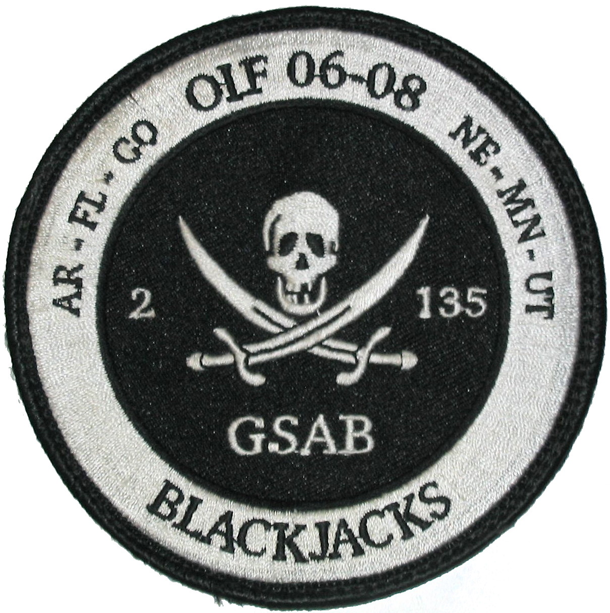 This is a photograph I took of an official patch/insignia of a United States Army National Guard unit. I am happy to release any rights of my photograph under the GFDL. I understand the basic logo/patch design to be public domain in the United States under Title 17, Chapter 1, Section 105 of the US Code. (this is the first image I have ever uploaded to Wikipedia; if I have erred, please let me know) User:N2e